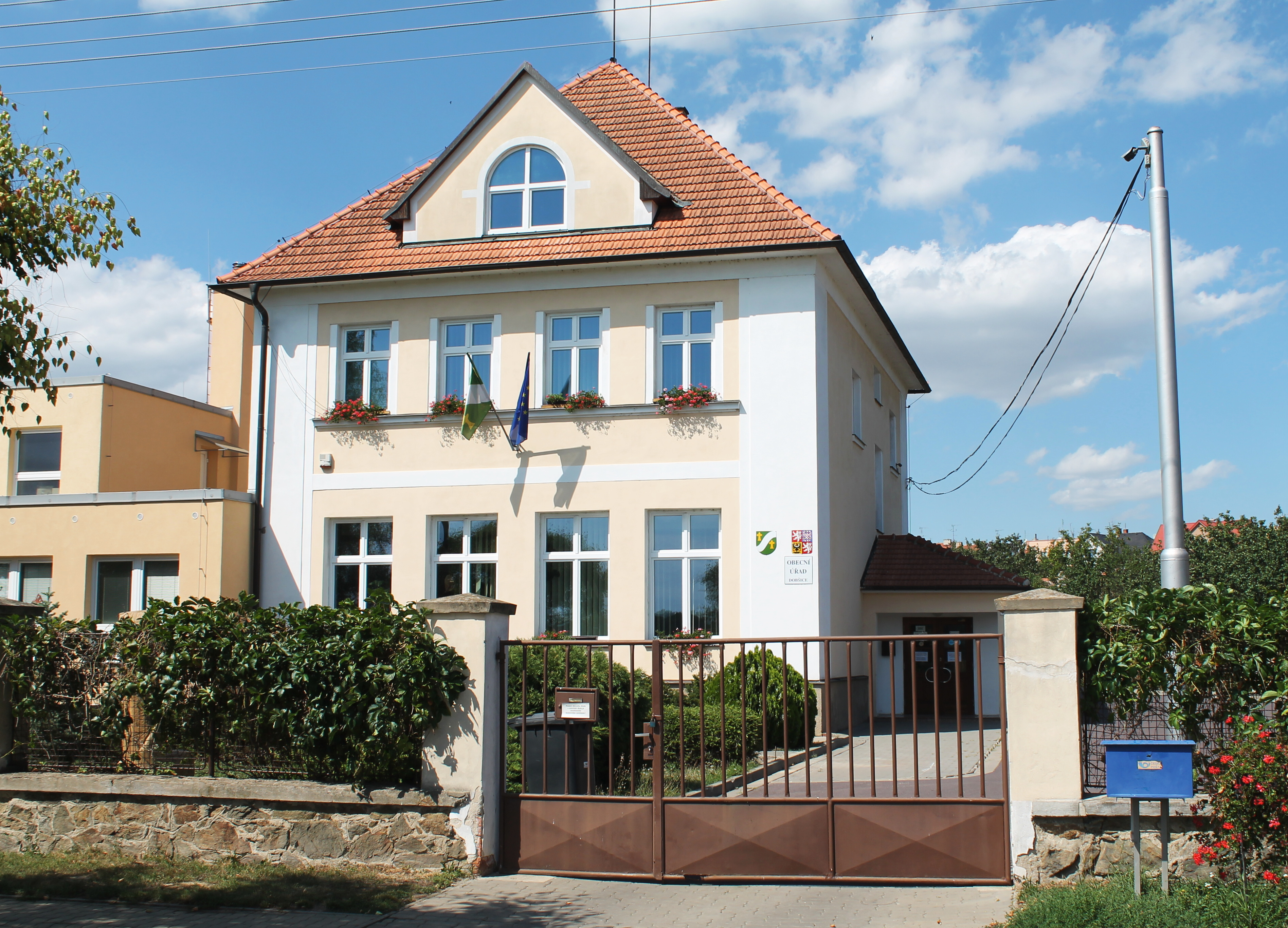 Municipal office, Dobšice, Znojmo District, Czech Republic